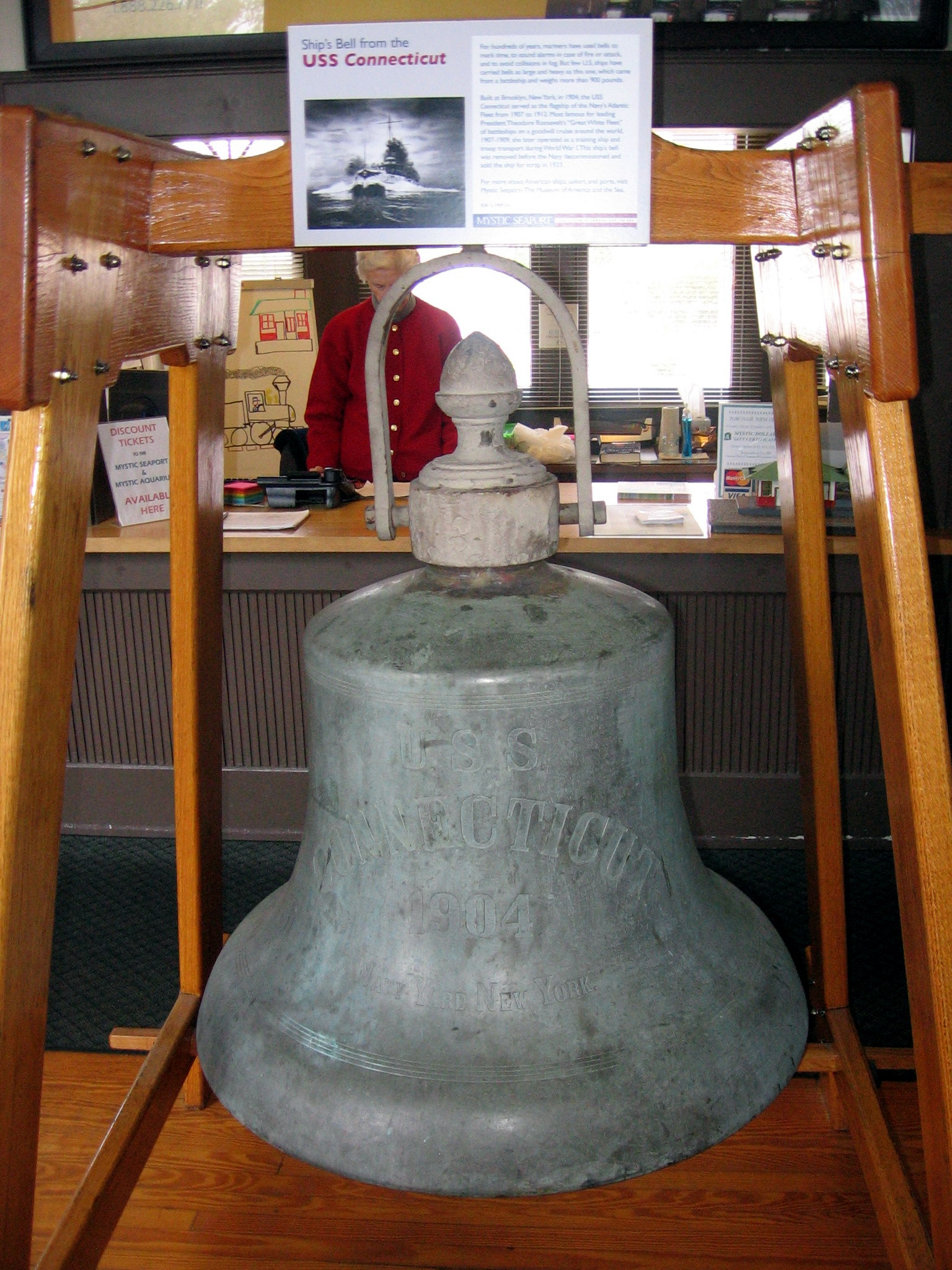 Ship's bell of the USS Connnecticut (BB-18) on display at the Amtrak station in Mystic, Connecticut